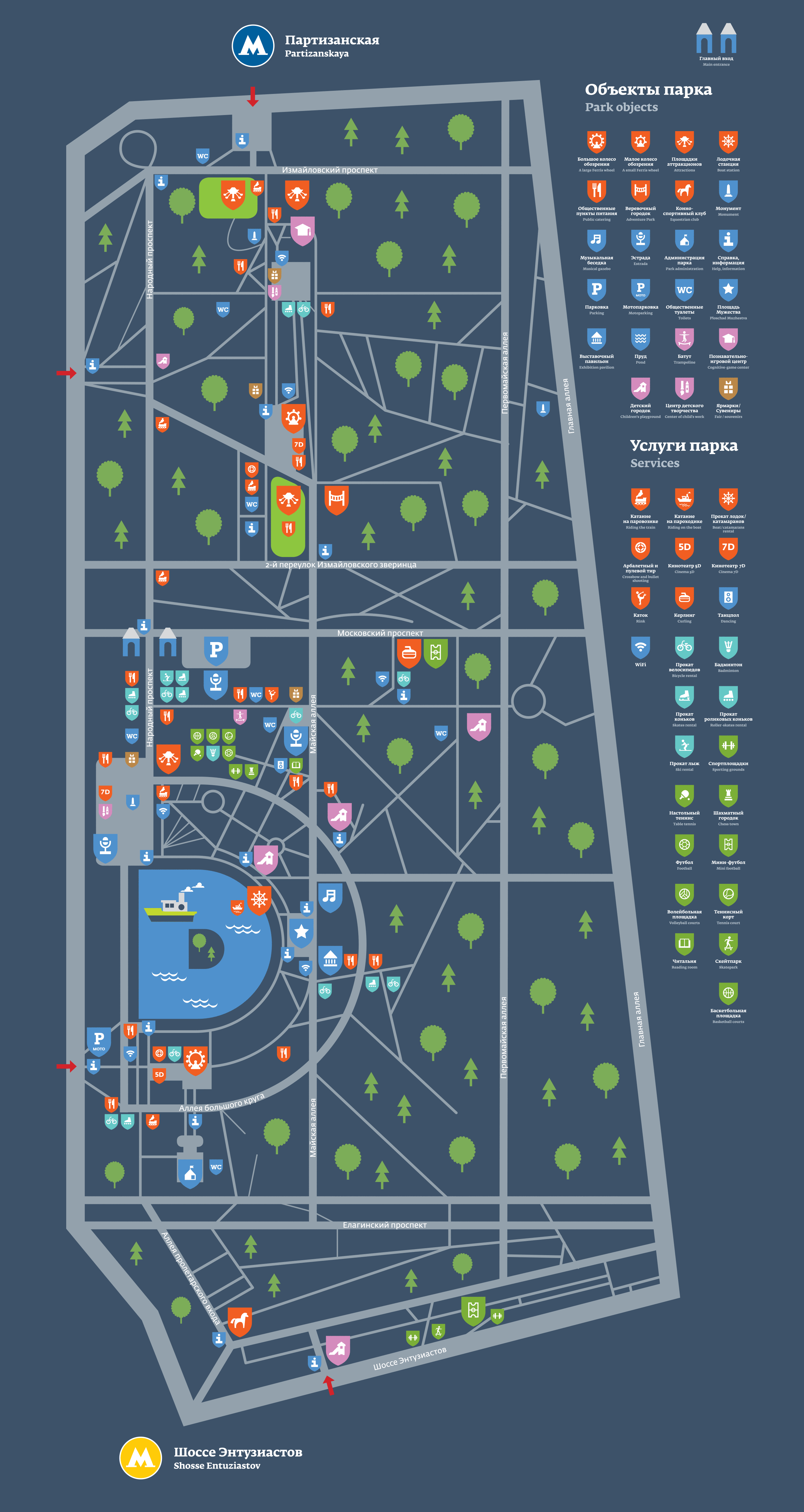 Scheme of Izmailovsky park, Moscow